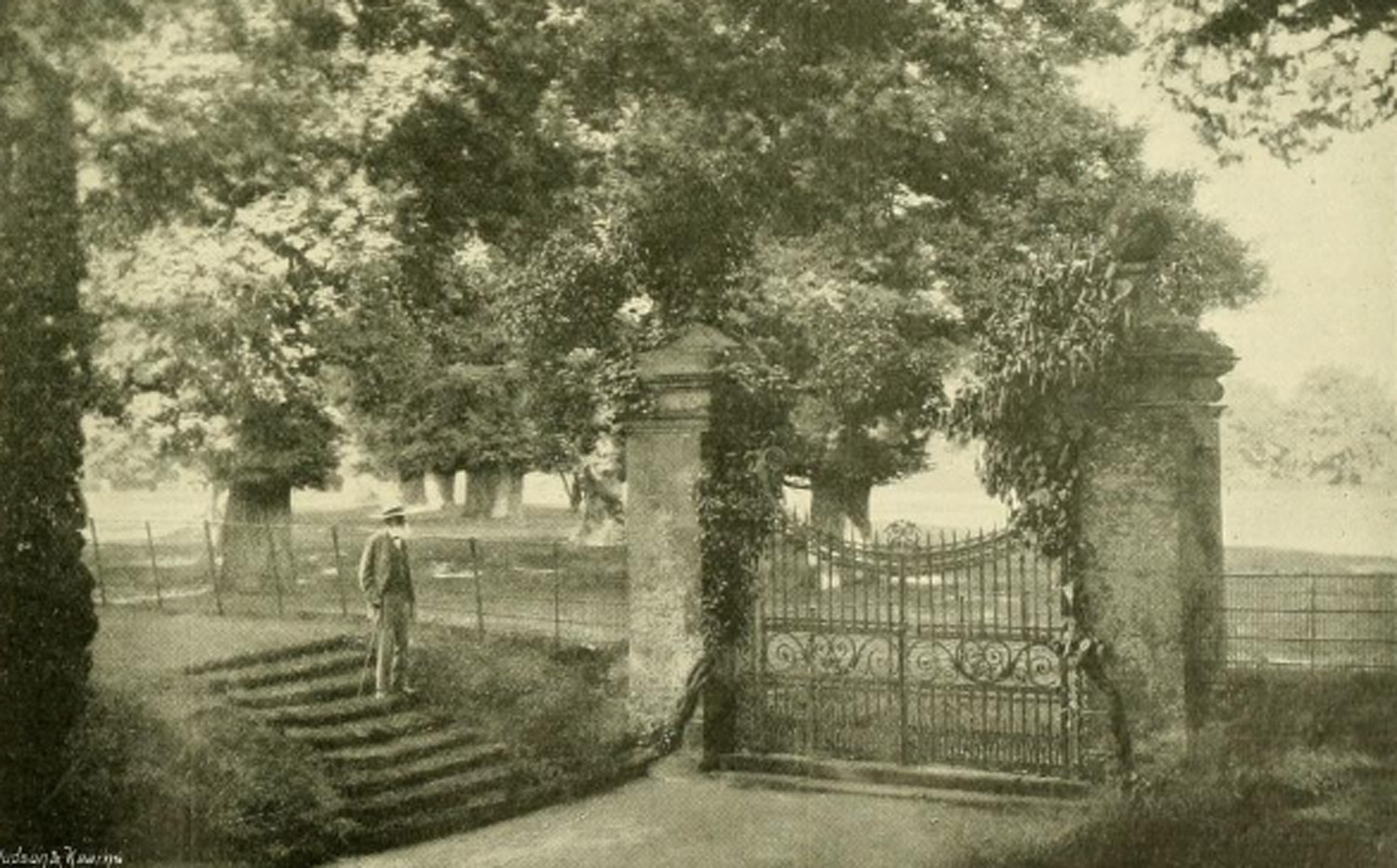 Sir Charles Isham near the gates at Lamport Hall in 1898